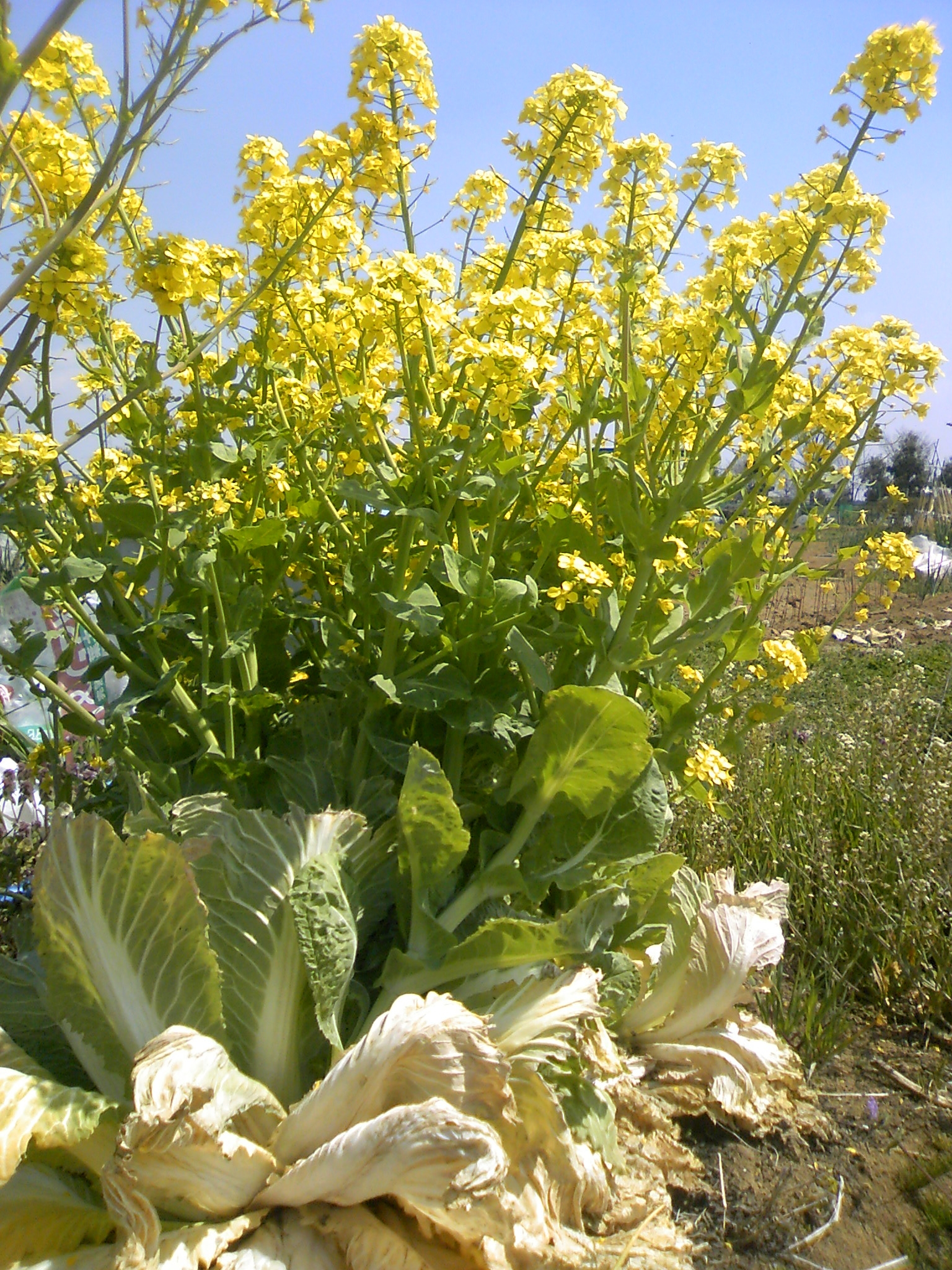 Blooming chinese cabbages. At Saitama, Japan.